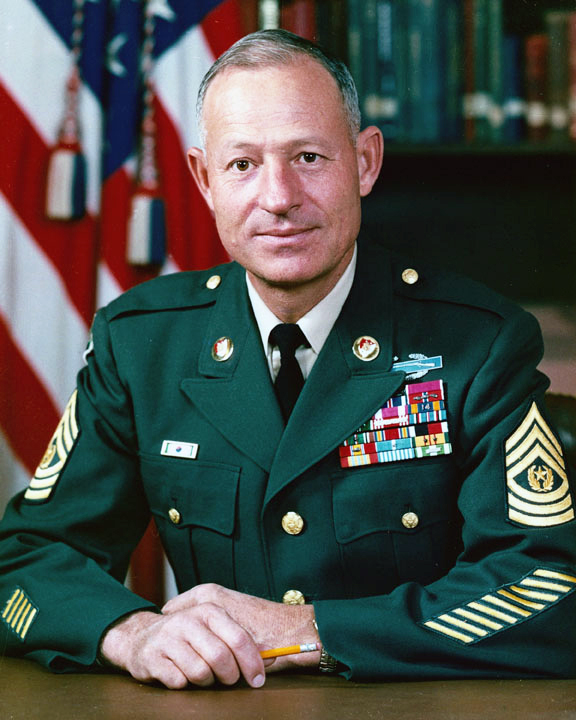 SMA Slias Copeland from [1]